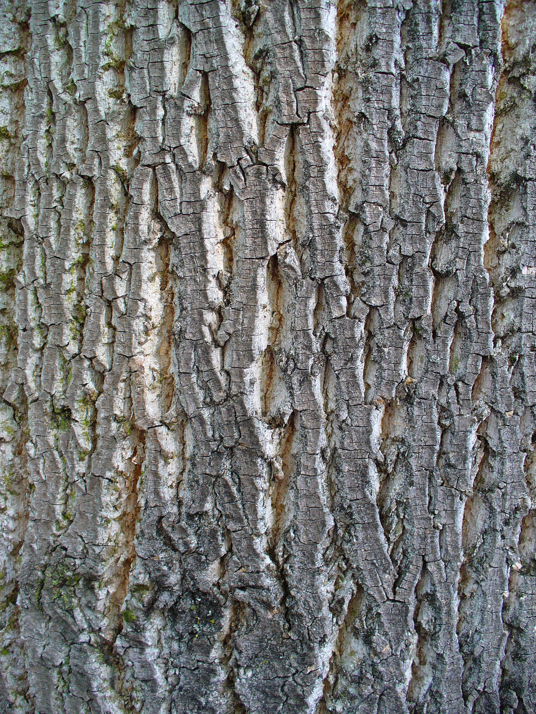 Liriodendron tulipifera, Magnoliaceae, Tulip Tree, Tulip Poplar, Yellow Poplar, bark; Karlsruhe, Germany. The bark is used in homeopathy as remedy: Liriodendrom tulipifera (Lir-t.)